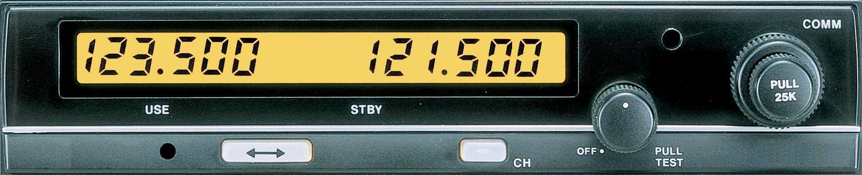 Transmitter receiver radio station tuned to an aeronautical band (118 to 137 MHz)